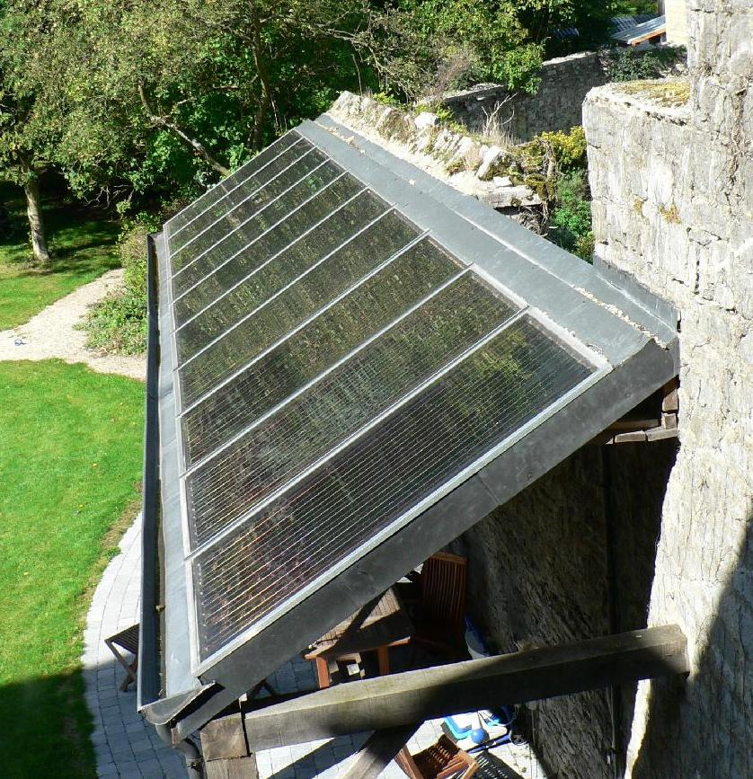 This is a cropped version of :Image:Zonnecollectoren.JPG.